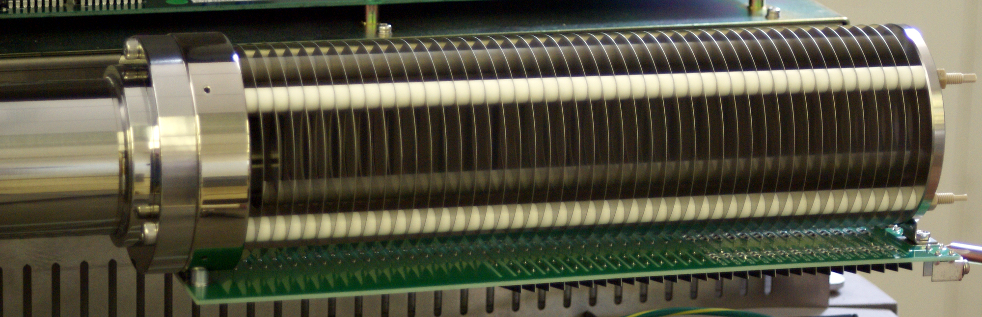 A dual stage reflectron from an IT-TOF mass spectrometer from Shimadzu. This model is composed of a series of 46 metal disks, each of which receives a greater voltage than the previous disk, which creates a potential gradient. On the left, the reflectron is mounted to the flight tube, which is in turn mounted inside a cylindrical vacuum manifold.